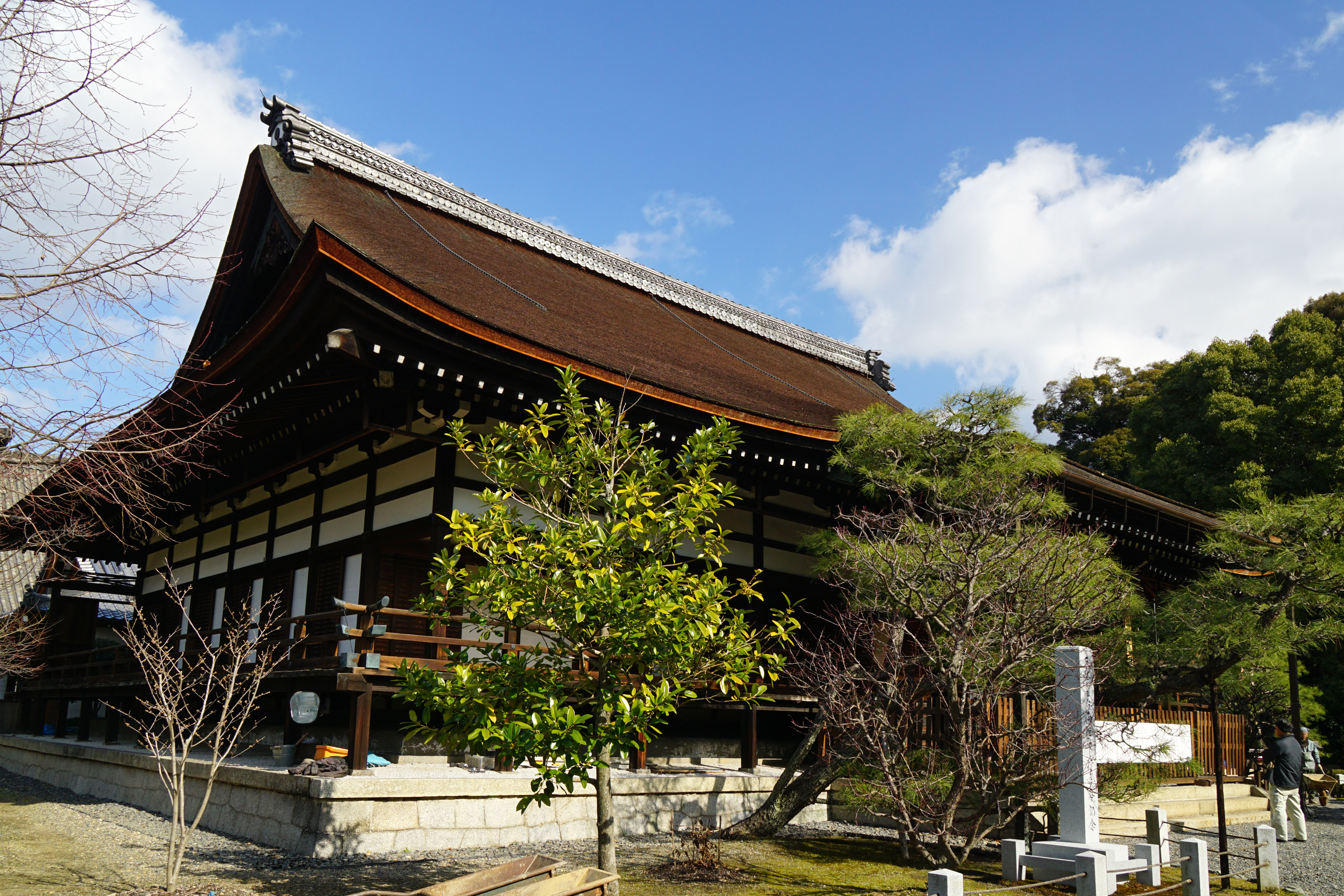 Myohoin in Kyoto, Kyoto prefecture, Japan